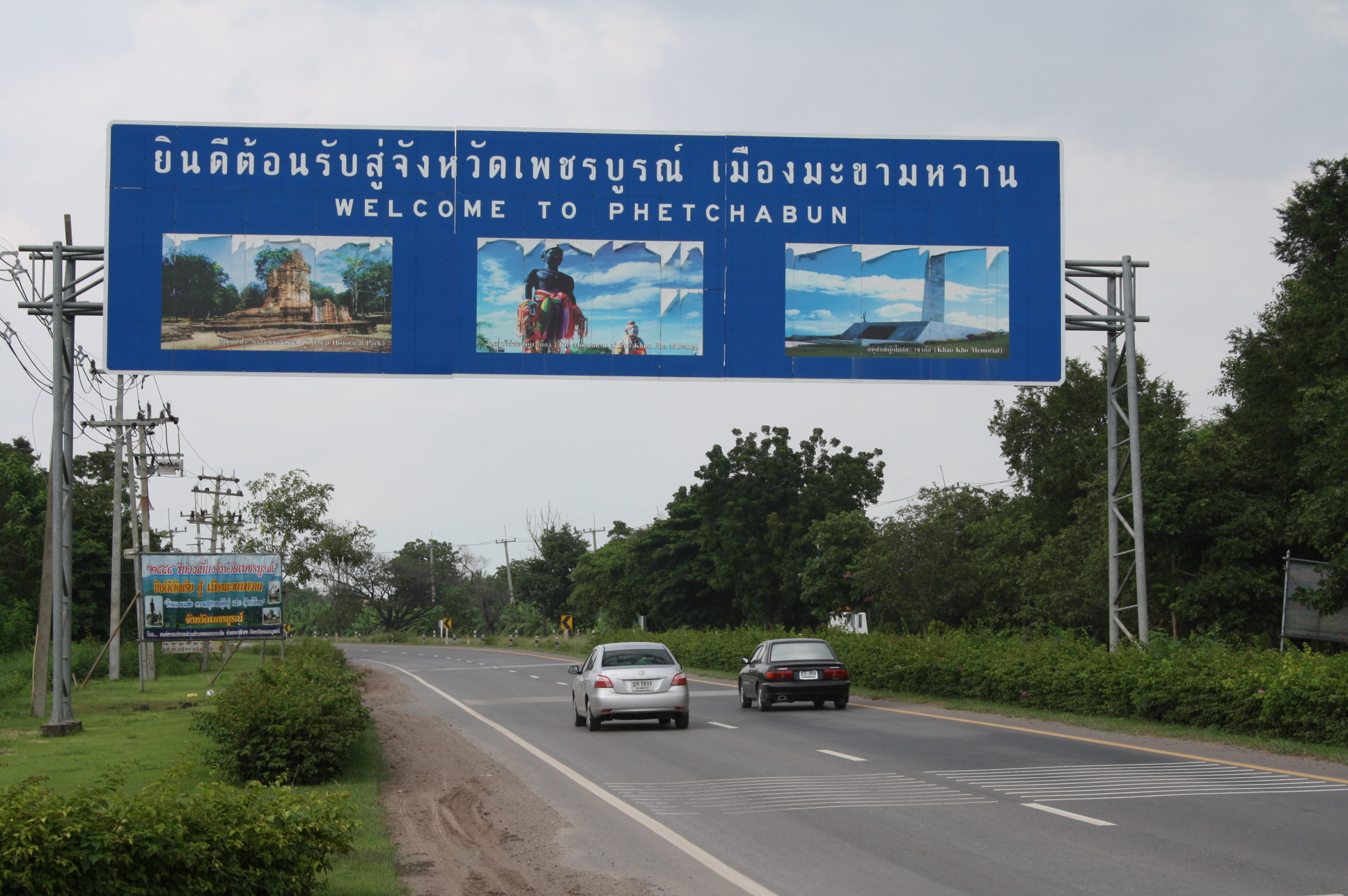 Thailand Route 21, entrance from Lop Buri province to Phetchabun province. Unfortunately, the steel pylons were overturned by a storm wind and the panel destroyed.